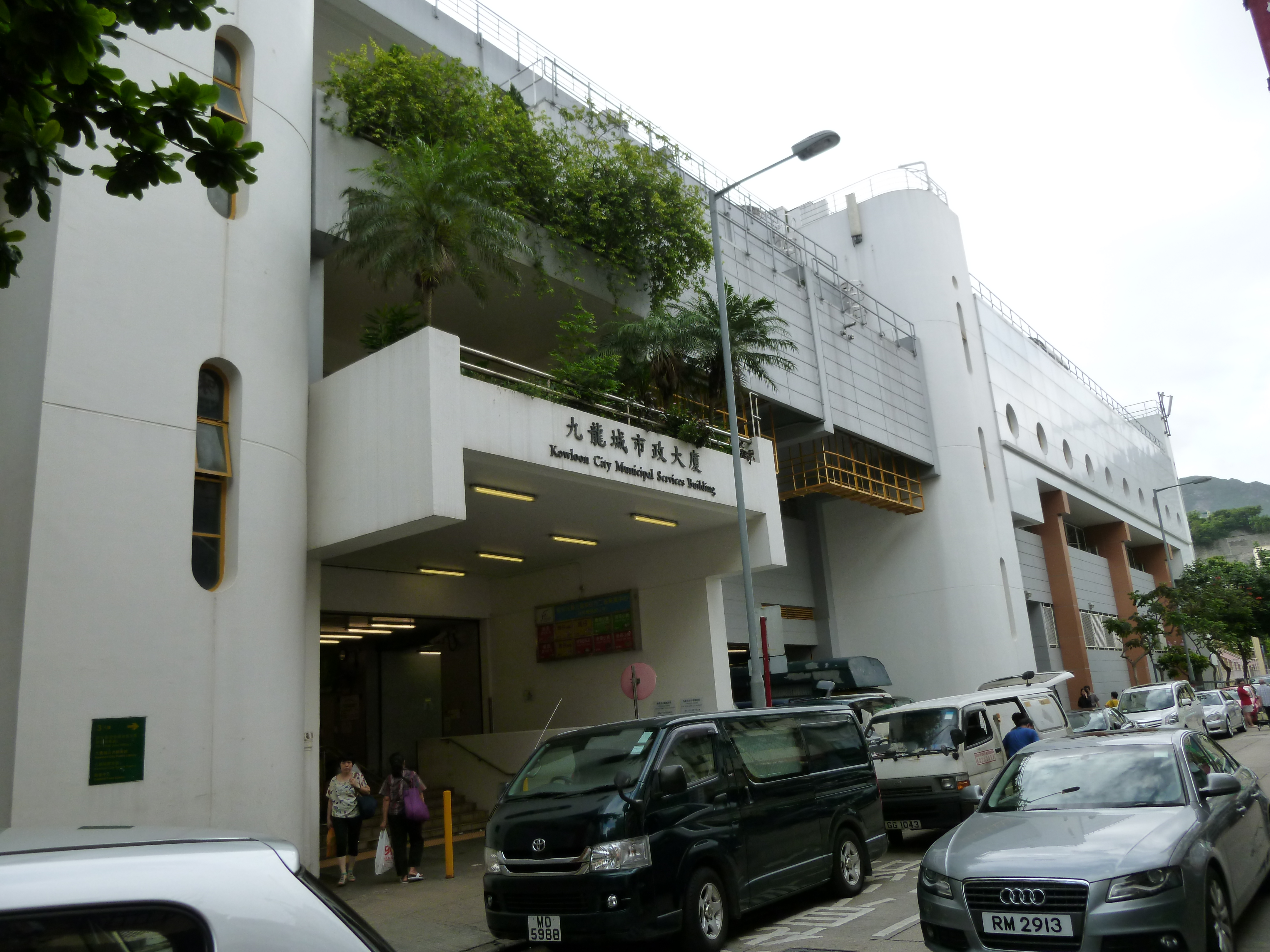 Kowloon City Municipal Services Building 中文（香港）: 九龍城市政大廈 (香港九龍九龍城衙前圍道100號)